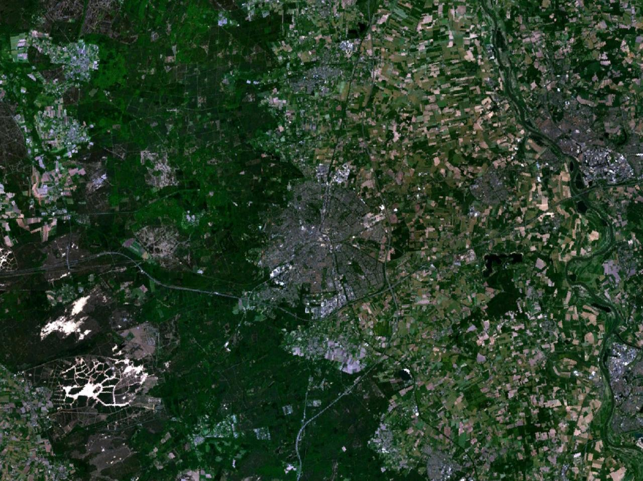 Apeldoorn (municipality), The Netherlands